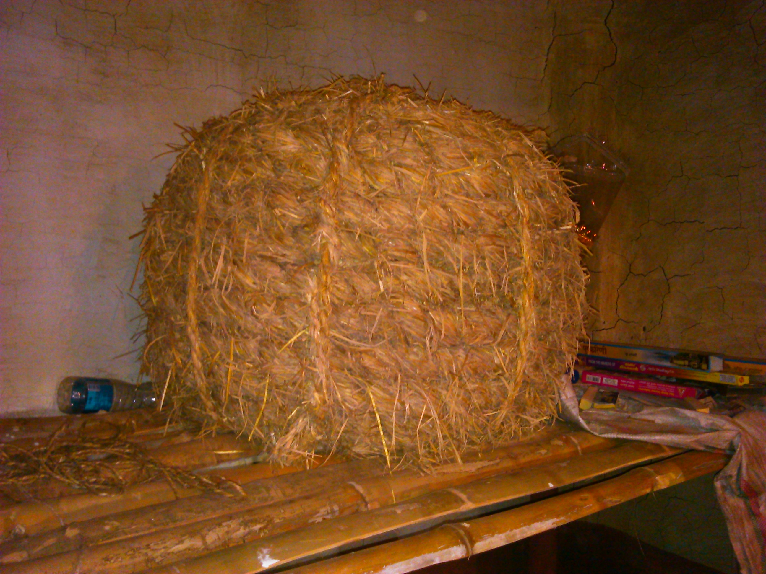 Tribal container for Rice. It is used to keep the seeds and all other food stuff for long time. Showcased in Tribal festival.